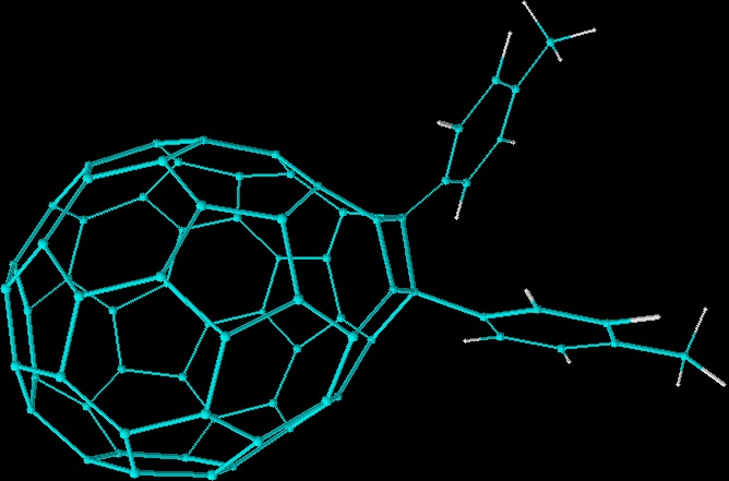 3D structure of C62 derivative from C60_update